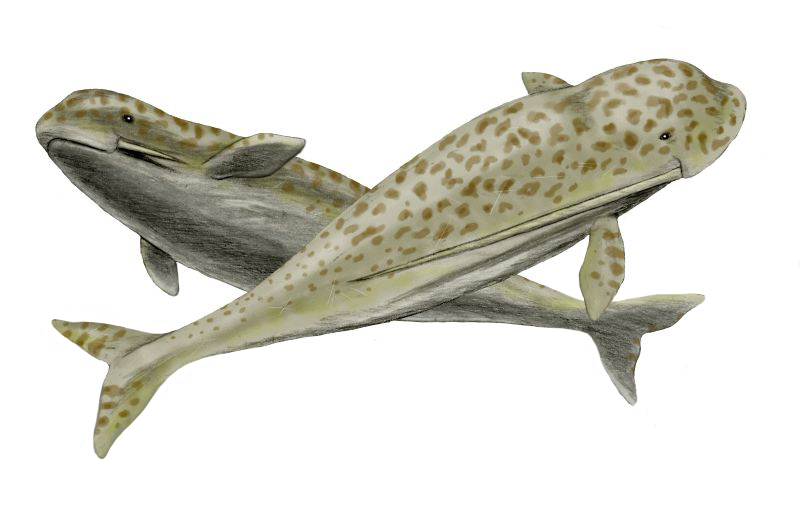 Odobenocetops leptodon, a whale from the Late Pliocene of South America, pencil drawing, digital coloring